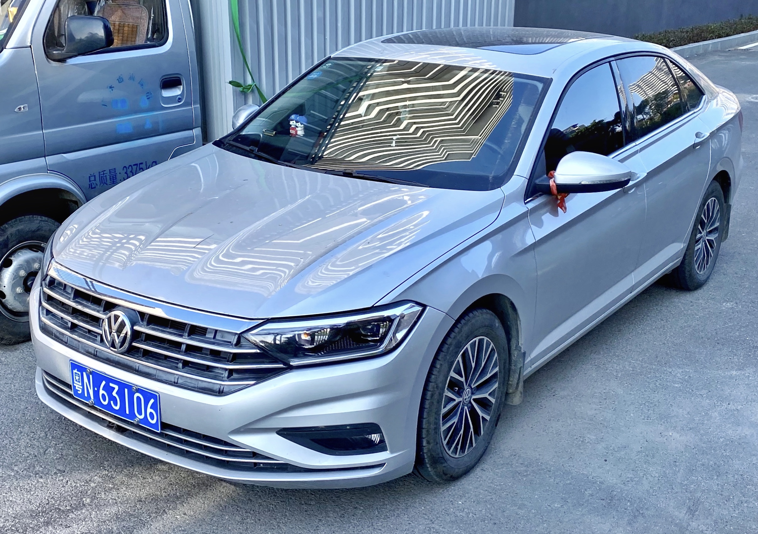 A 2019 FAW-Volkswagen Sagitar photographed in Shanwei, Guangdong province, China. 中文（中国大陆）: 一辆2019年的一汽大众速腾，拍摄于中国广东省汕尾市。